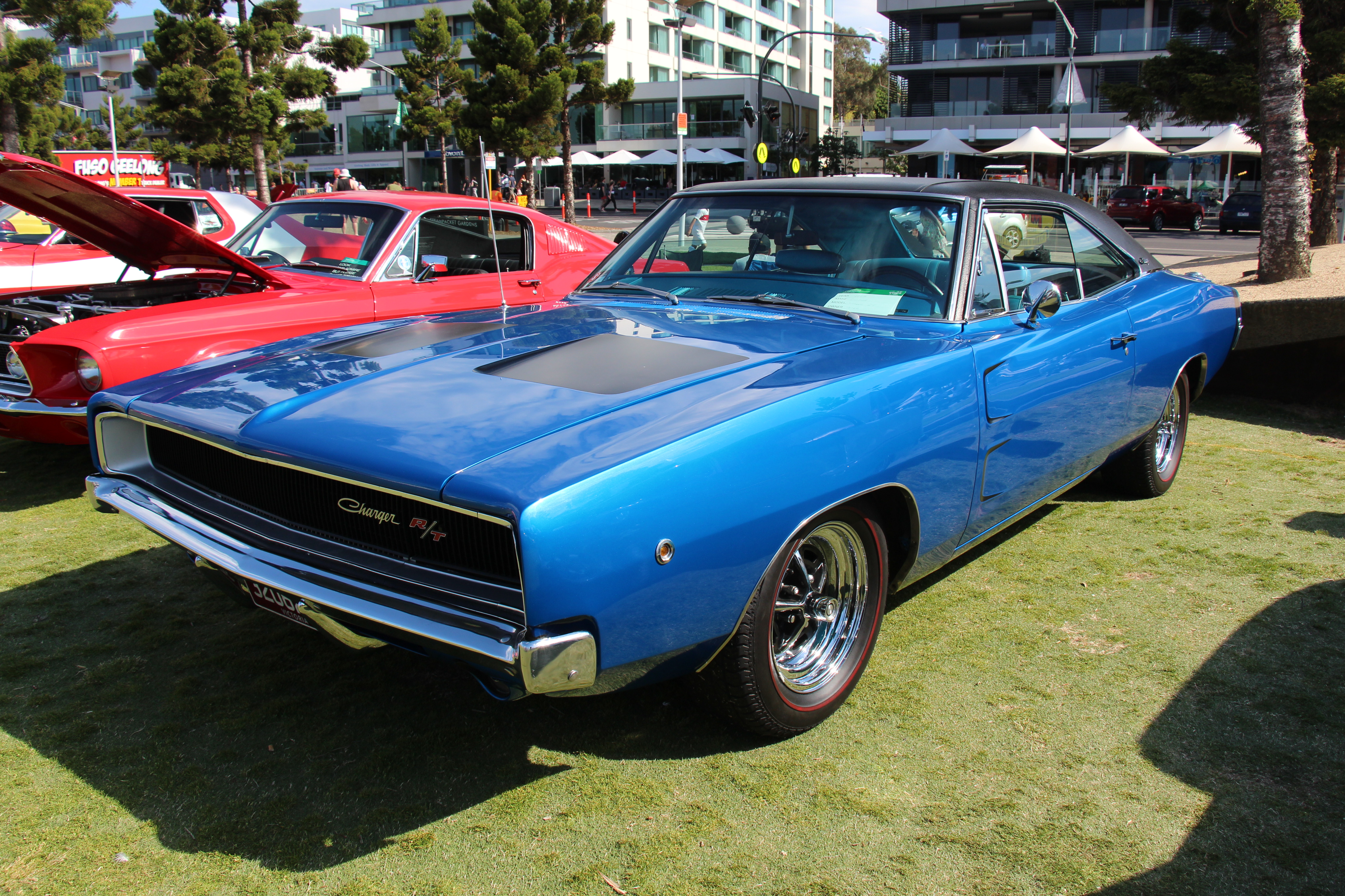 From 1966 the B Body Dodge (same platform as the Plymouth Belvedere and Satellite) was available as the general Coronet or the 2 door muscle car, the Charger. It was redesigned in 68 loosing the fastback and getting a 'coke bottle' shape with scallops in the doors and hood. The headlights still hidden, but now vacuum operated and the tail lights were round. Engines; New 225 cu in slant 6, 318, 383 V8s and the new high performance RT got ; 335bhp 440 standard engine and 425bhp 426 Hemi option